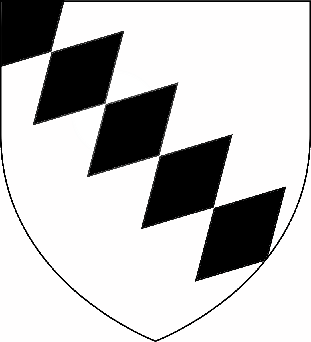 Arms of de Kittisford (13th century) of Kittisford, Somerset: Argent, a bend of fusils sable (Source: Anderson, James, Genealogical History of the House of Yvery, Vol.1, 1742, p.63[1]). These arms are visible sculpted (without tinctures) quartered by Sydenham on the monument of Richard Bampfield (d.1594) in Poltimore Church, Devon.